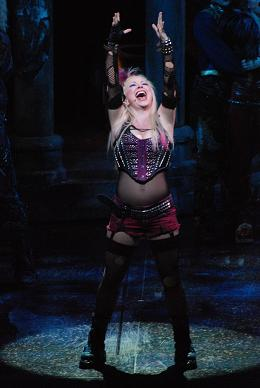 Marta Helmin at the We Will Rock You Musical